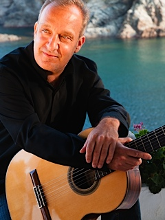 Photo of Stephen Marchionda in Sa Tuna, Girona, Spain. Photo by Connie Dines. Stephen_Marchionda